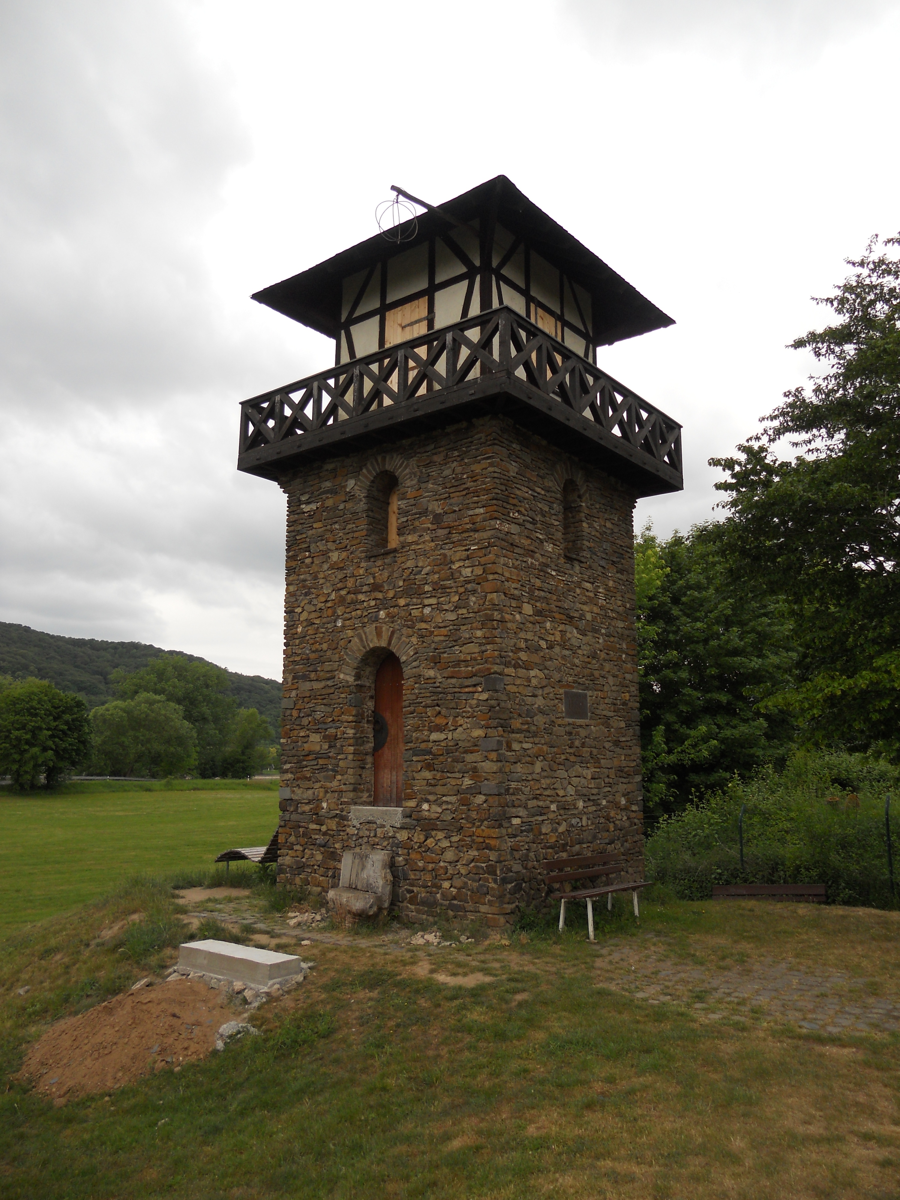 Reconstruction of a roman watchtower along the Rhine in Bad Hönningen